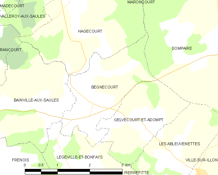 Map of French municipality Begnécourt